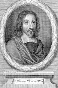 Sir Thomas Browne, engraving from an eighteenth century frontispiece